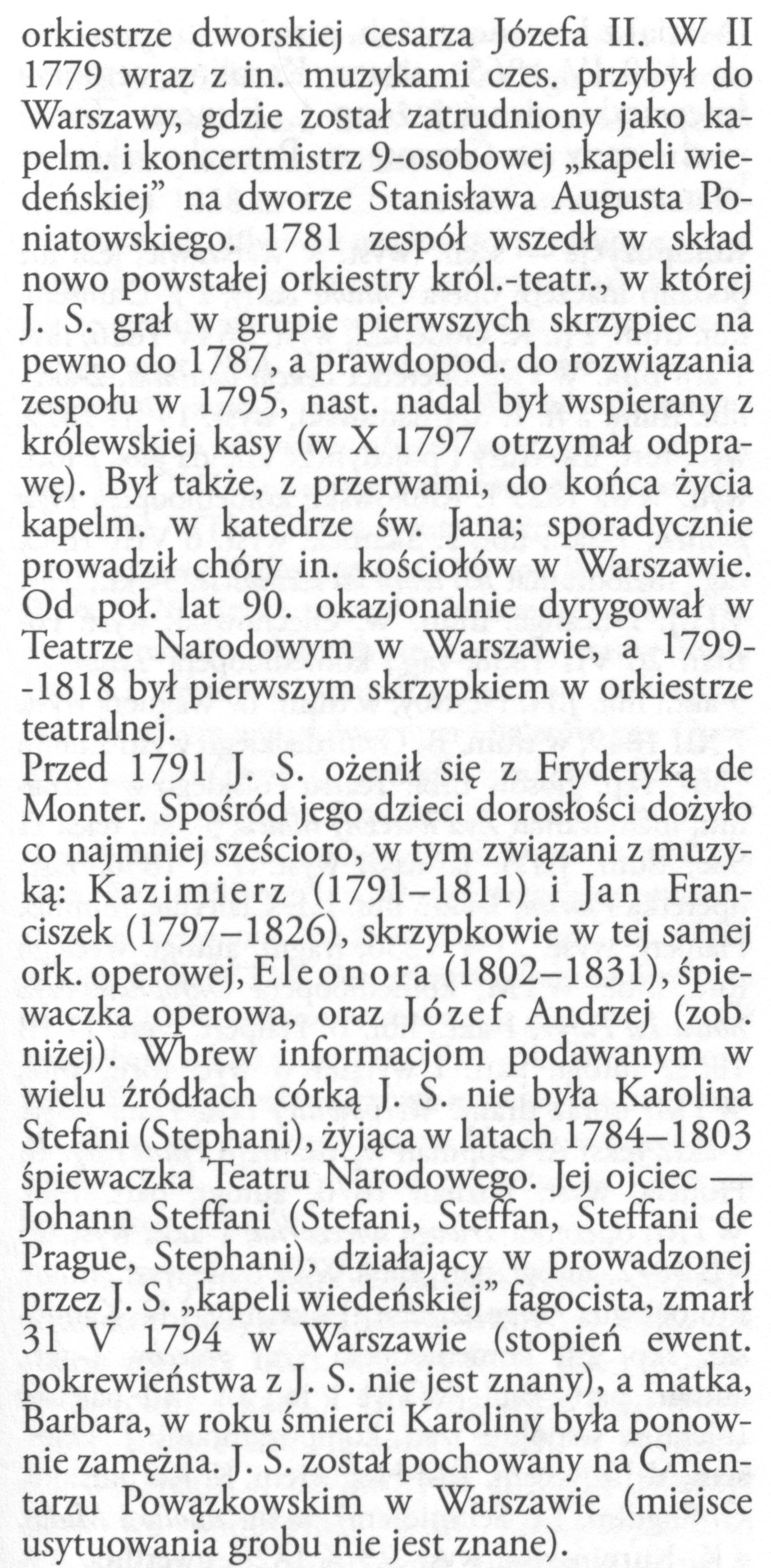 Polskie Wydawnictwo Muzyczne granted permission to use from the Encyklopedia Muzyczna PWM ISBN 83-224-0112-4 some biographies, including that. The consent applies only to resume.